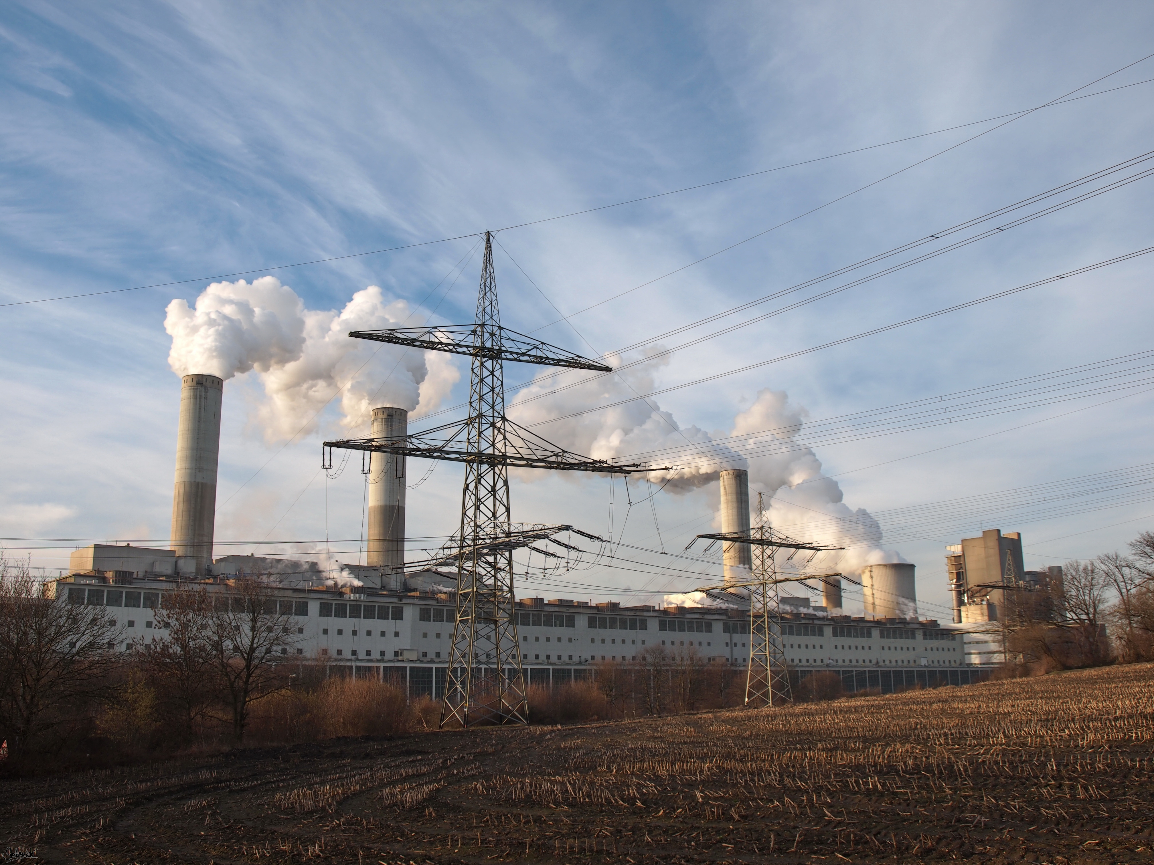 Power plant Frimmersdorf